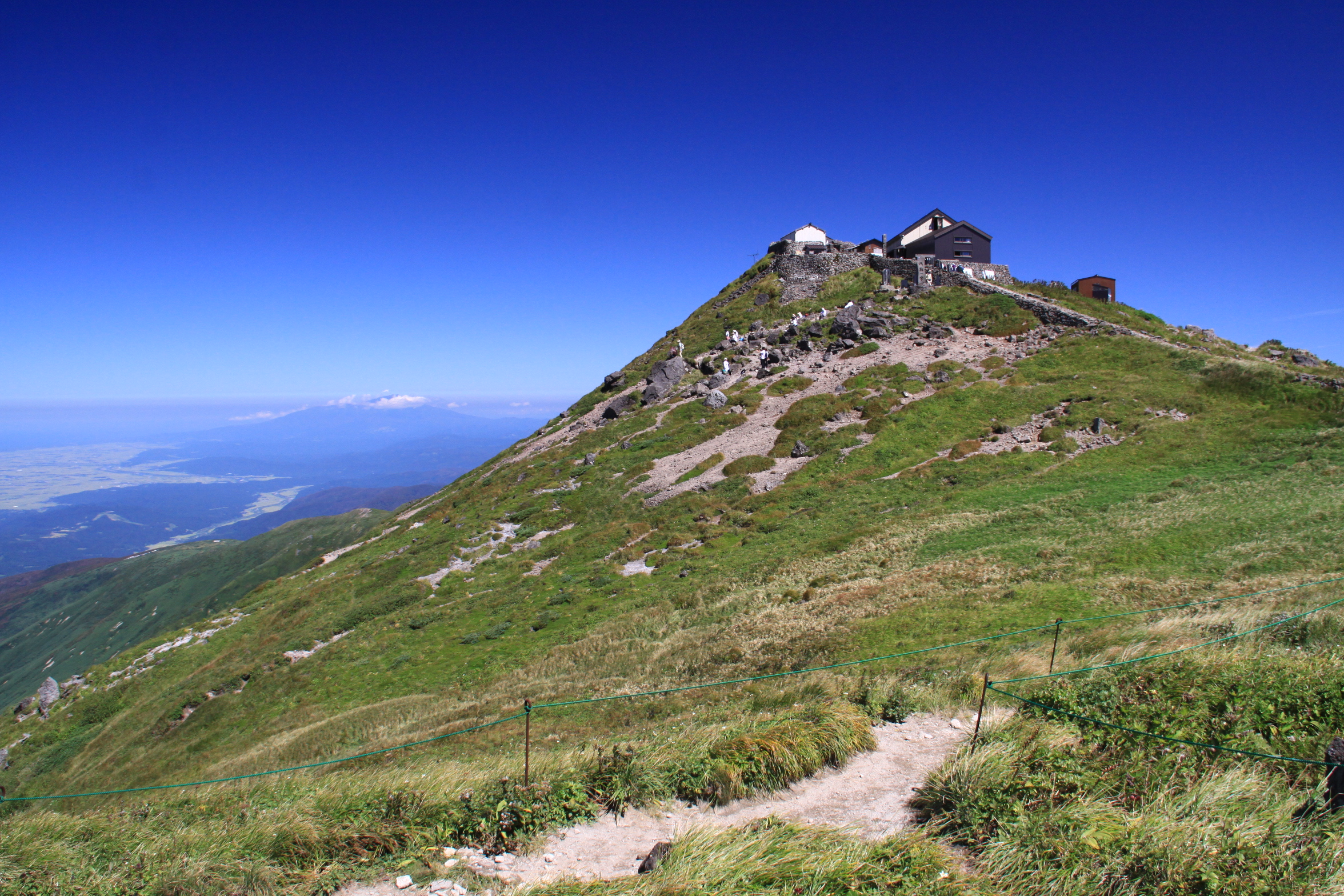 A summit of Gassan with Gassan-jinja seen from the South, In Yamagata Prefecture, Japan. Mount Chōkai in the far left.